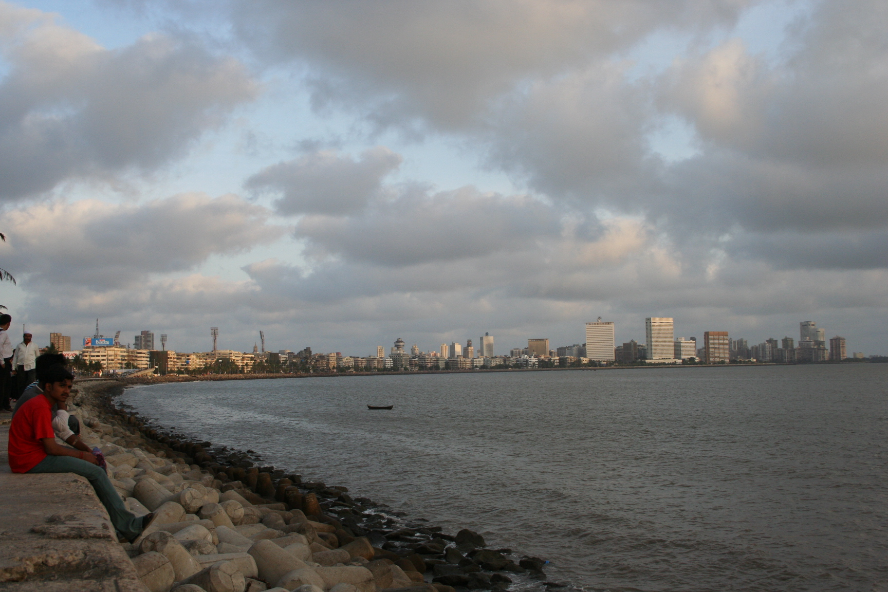 Marine Drive..a.k.a The Queen's necklace